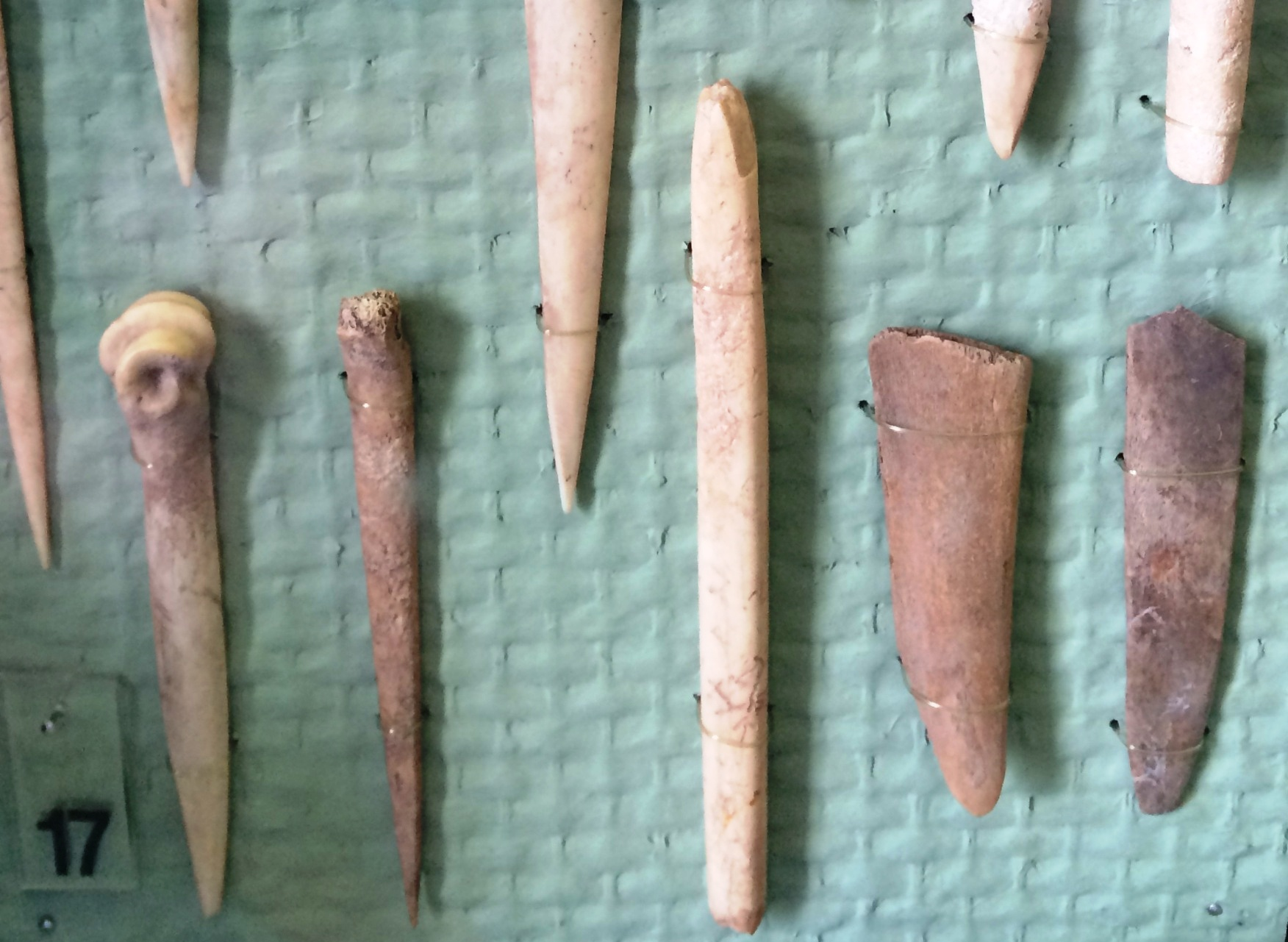 Bone Tools from the "Transdanubian" linear pottery culture period in Hungary, between 5400 BC and 4000 BC. Found near Budapest.